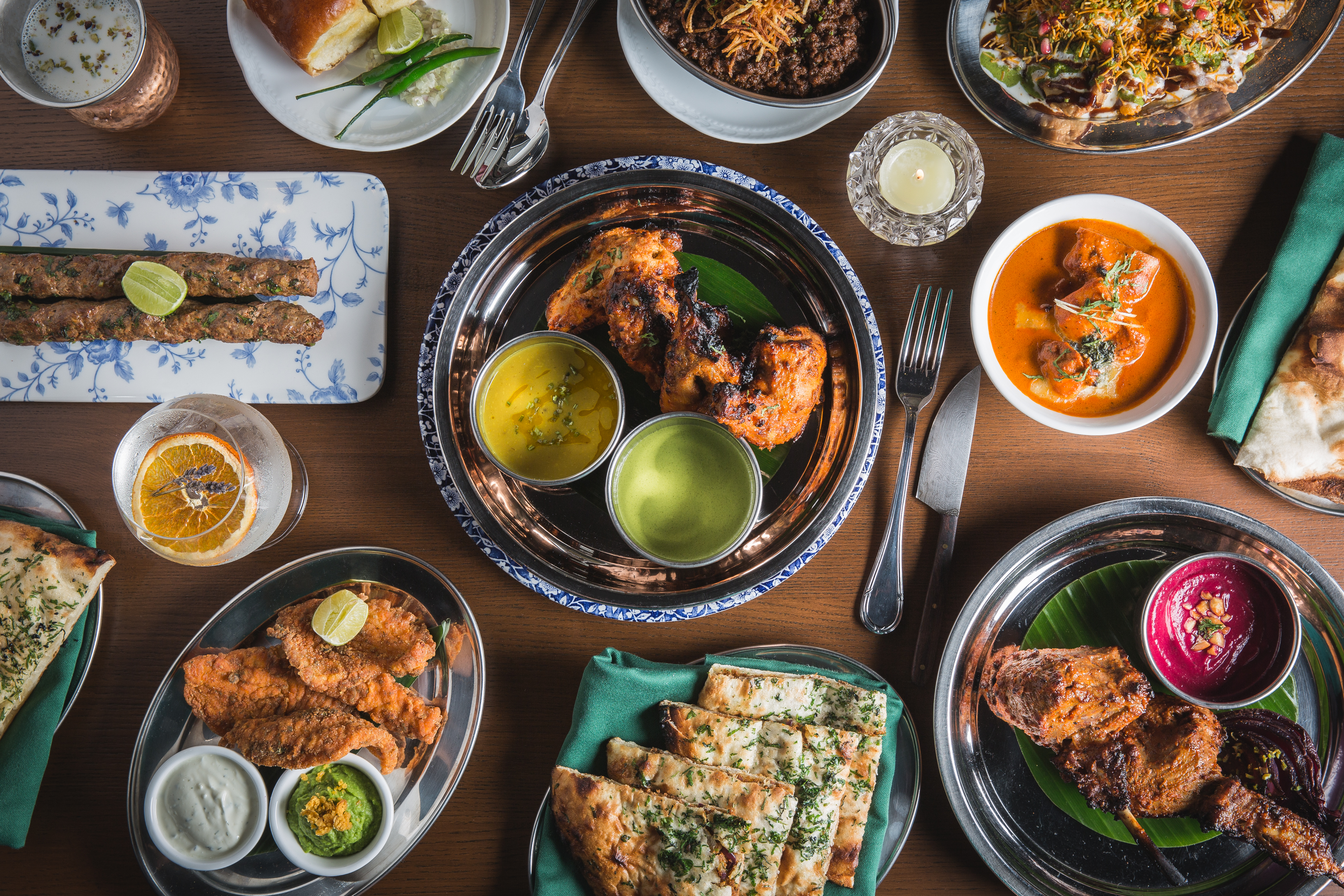 Depicted are signatures from the Michelin-starred Punjabi Restaurant